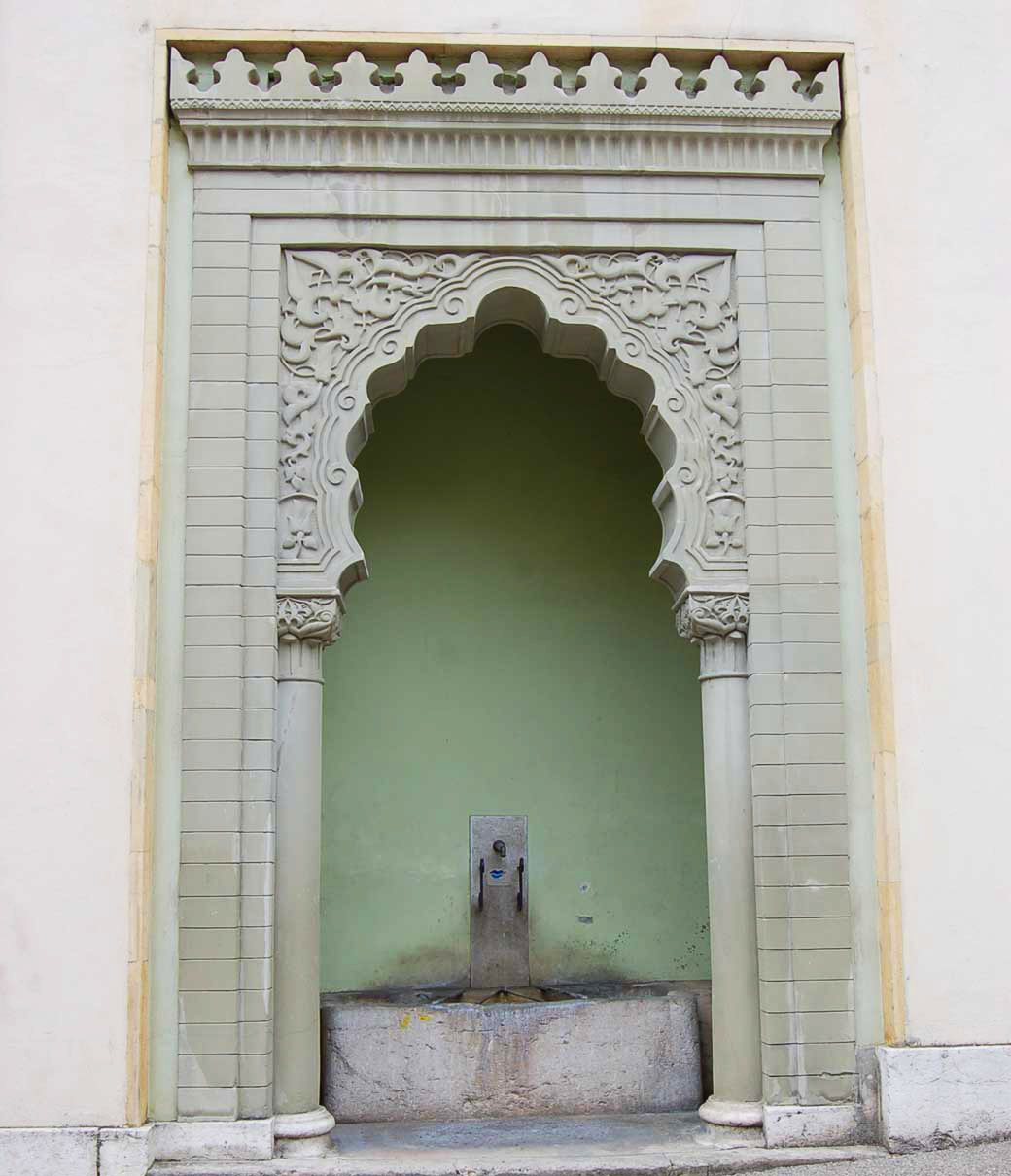 Arabic fountain, in Serrières, Neuchâtel, Switzerland